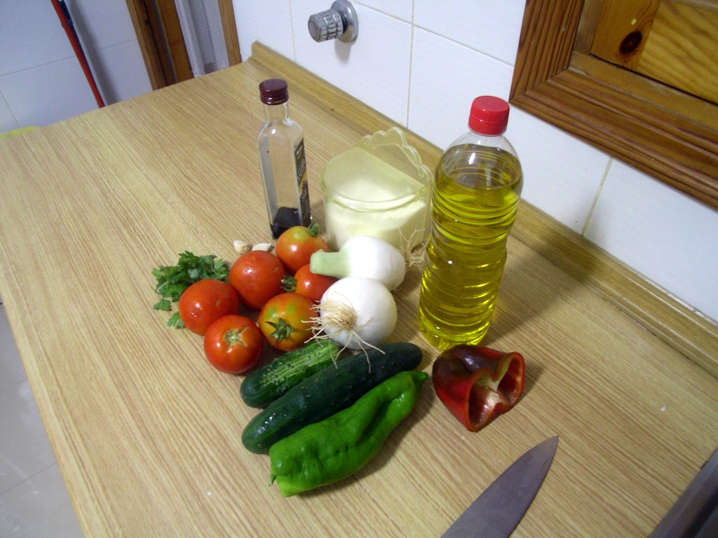 The ingredients for gazpacho soup.